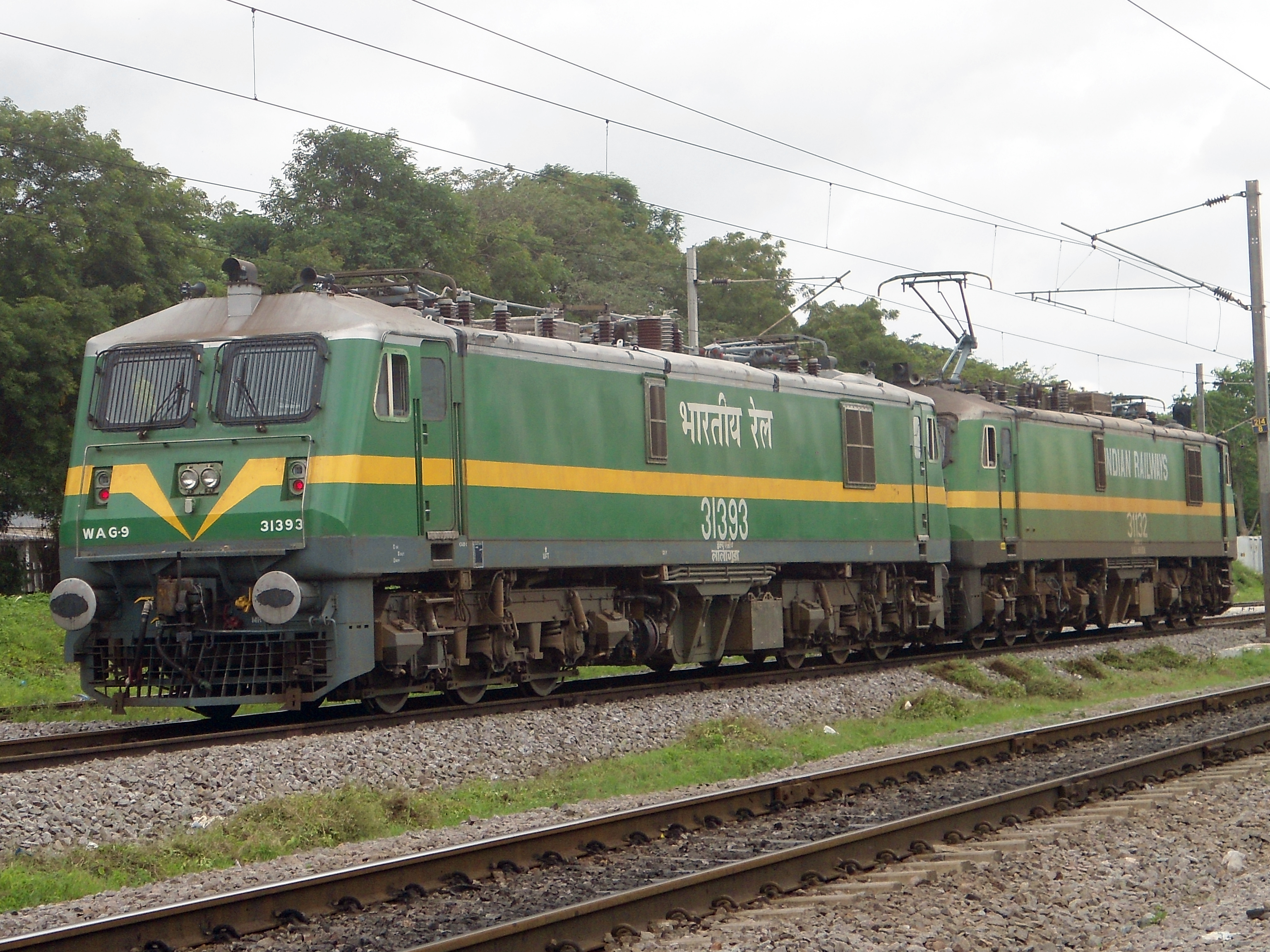 LGD based WAG-9 Locomotives resting at Ghatkesar Railway Station, Hyderabad